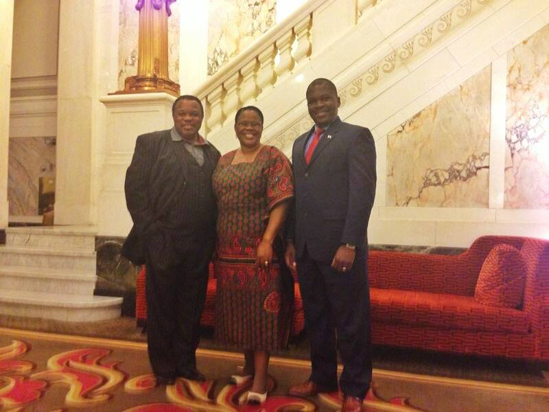 Malanga poses with Kanda Bongo Man and his wife at a ceremony appointing him UCP Ambassador.